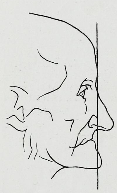 An anatomical illustration from the 1921 German edition of Anatomie des Menschen: ein Lehrbuch für Studierende und Ärzte with latin terminology.